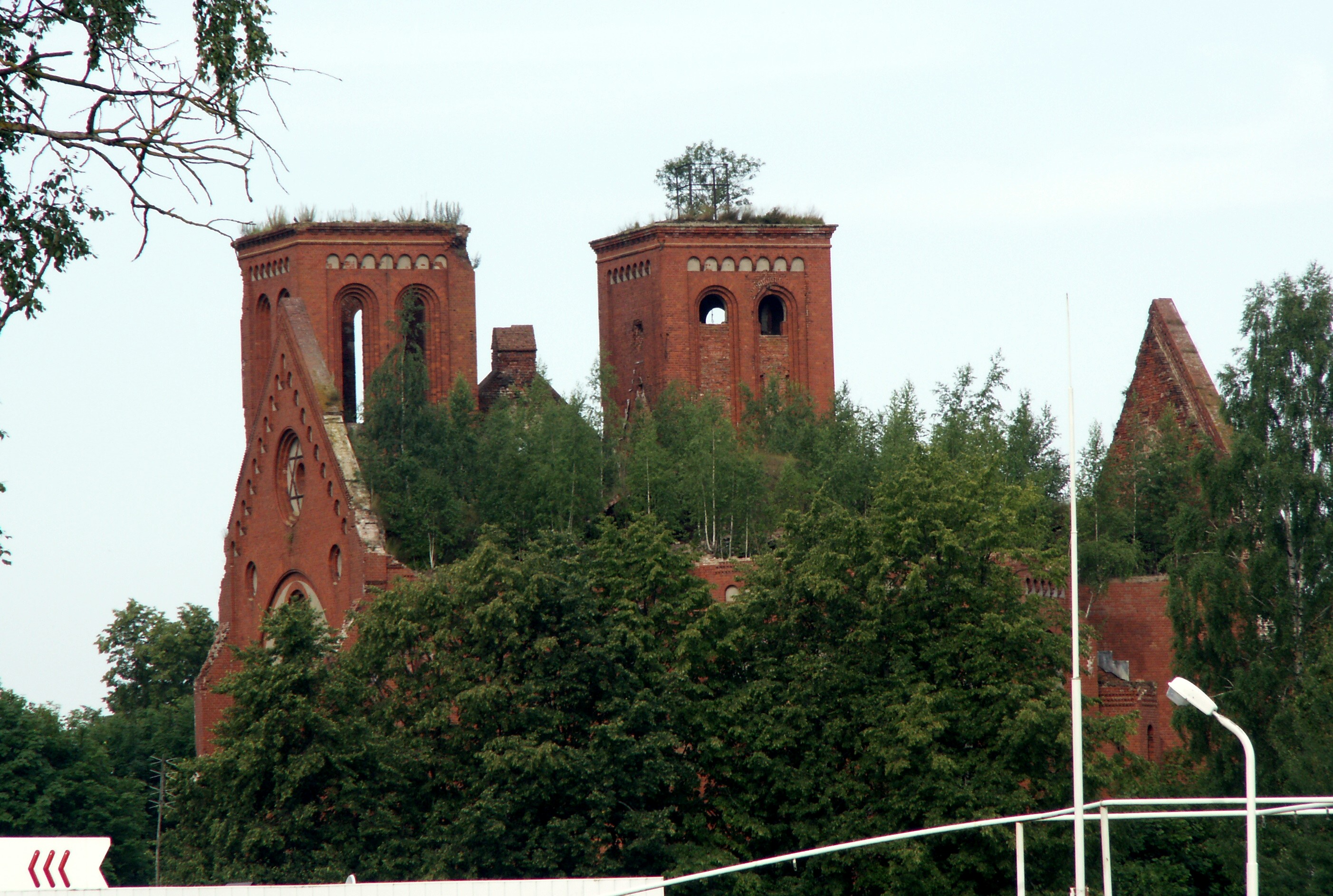 Chernyshevskoye